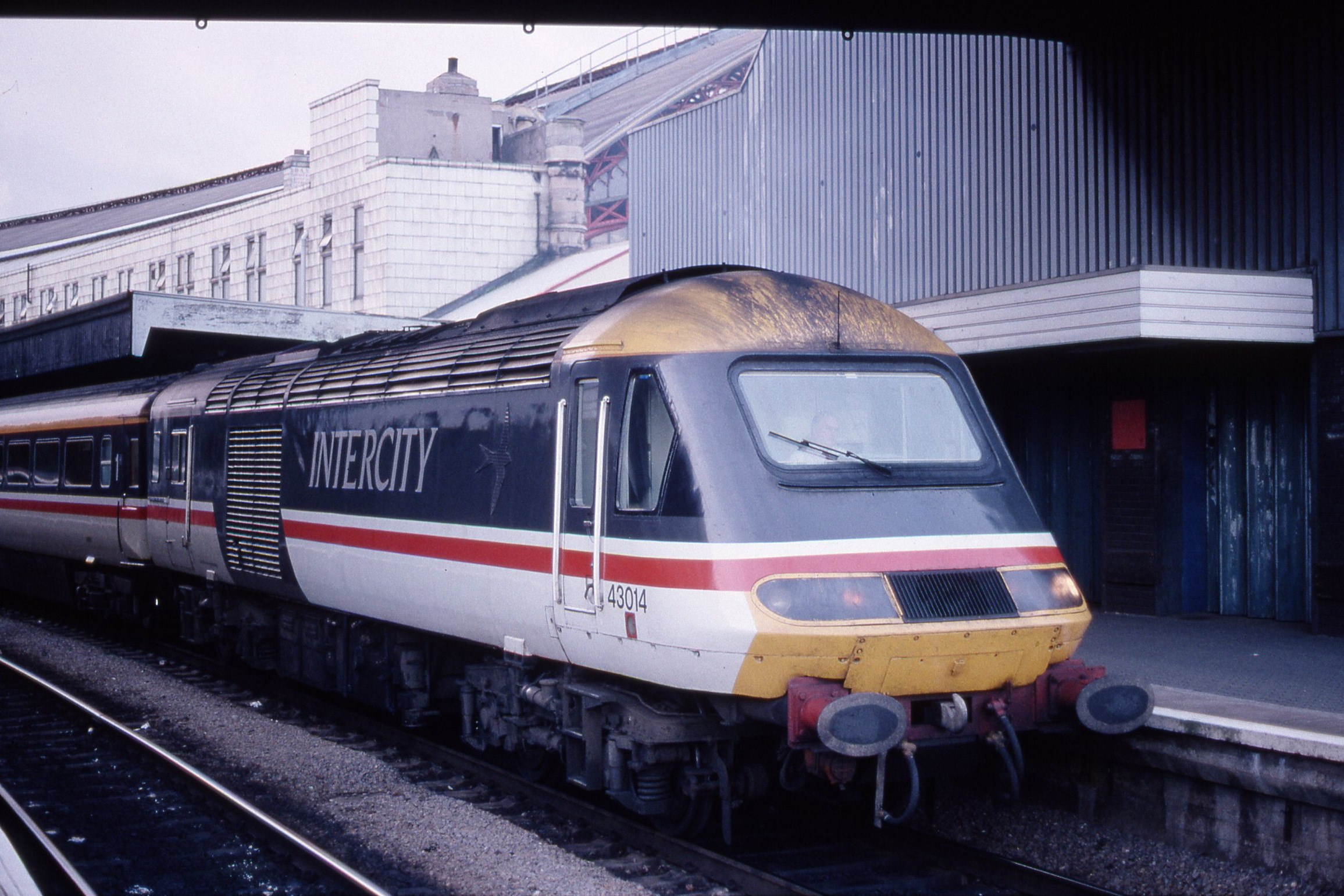 Class 43 HST 43014 leading 15.55 Edinburgh (ex-Penzance) Bristol Temple Meads 6.11.1994 Scans017